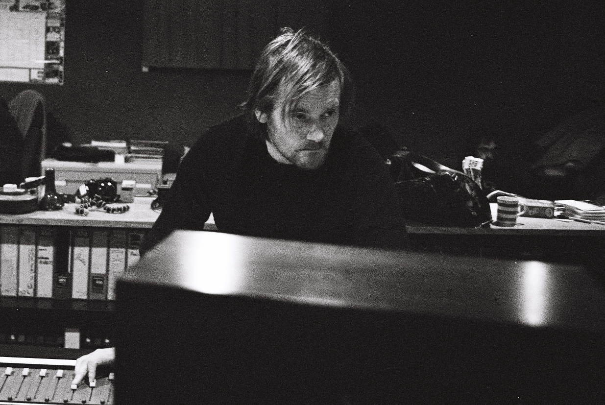 Geoff Barrow at the mixing desk in State of Art Studio Bristol